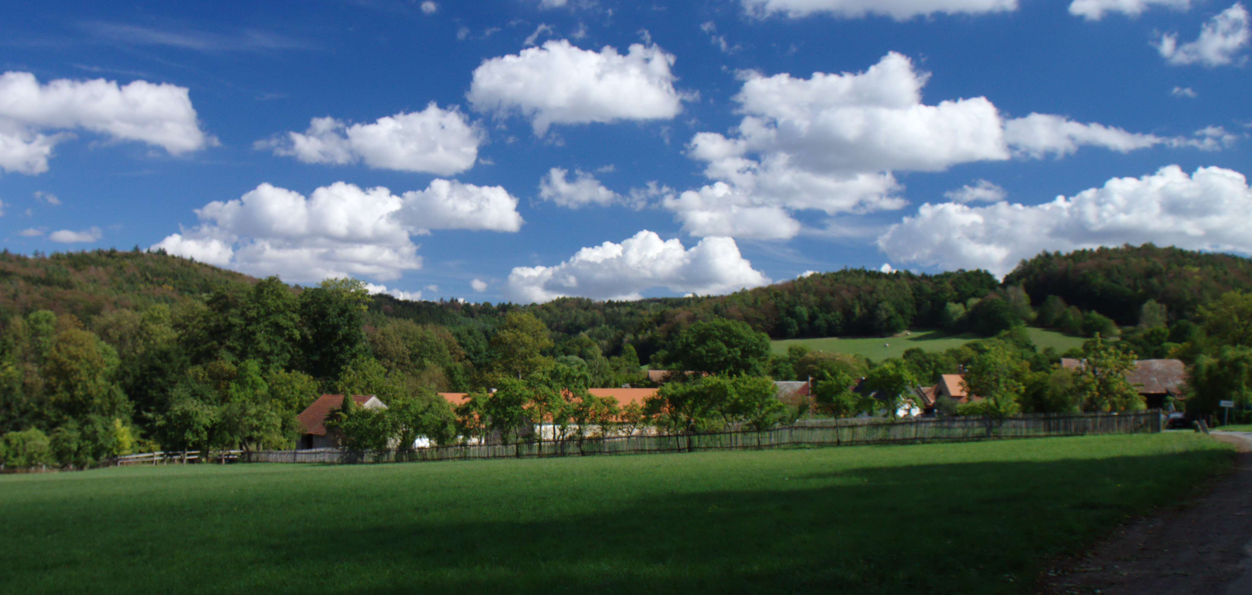 View of the village of Semtín, Central Bohemia, CZ